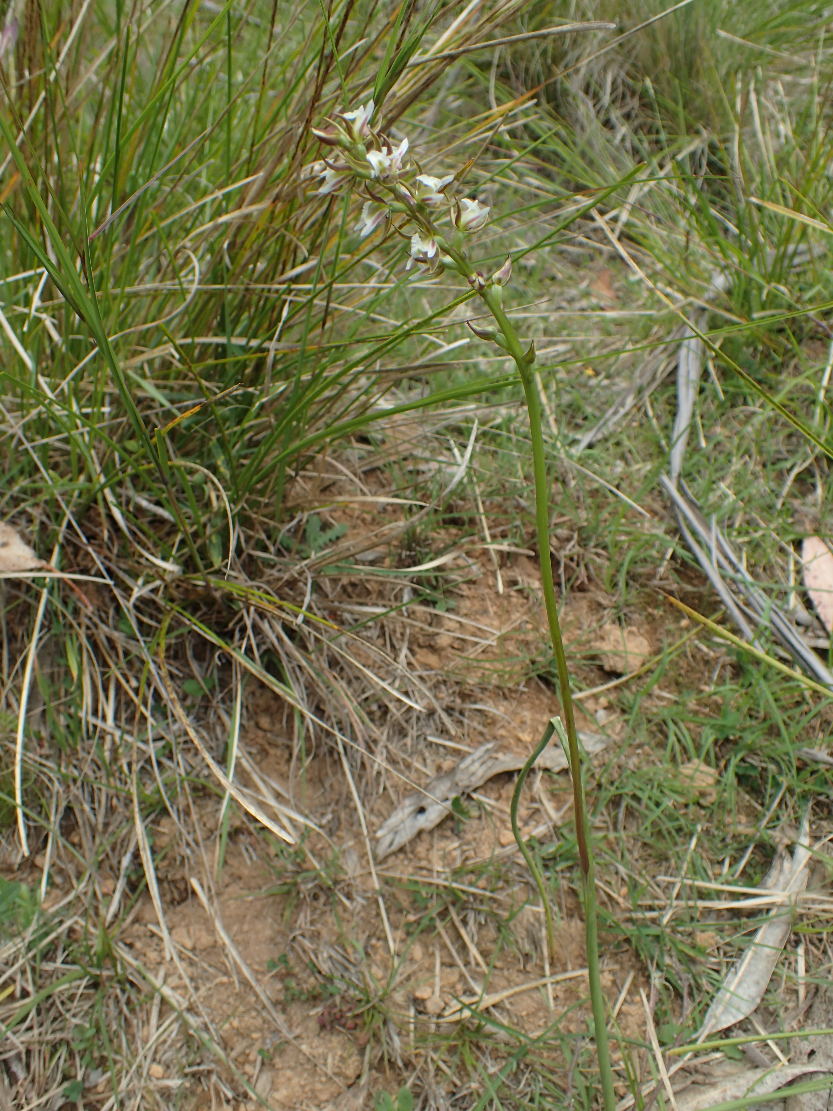 Prasophyllum basalticum in Werrikimbe National Park